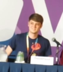 Vidcon 2017 Animators Panel 2017 with: TheOdd1sOut, TonyVToons, Chris from itsAlexClark, Domics, Jaiden Animations